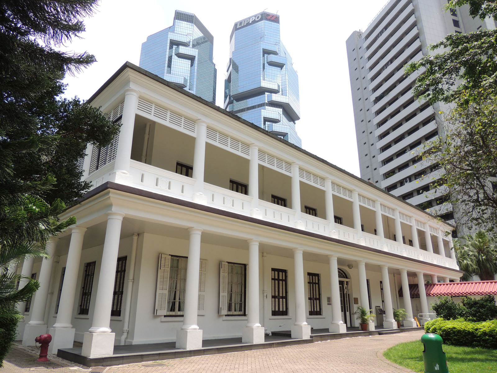 Flagstaff House (Museum of Tea Ware)